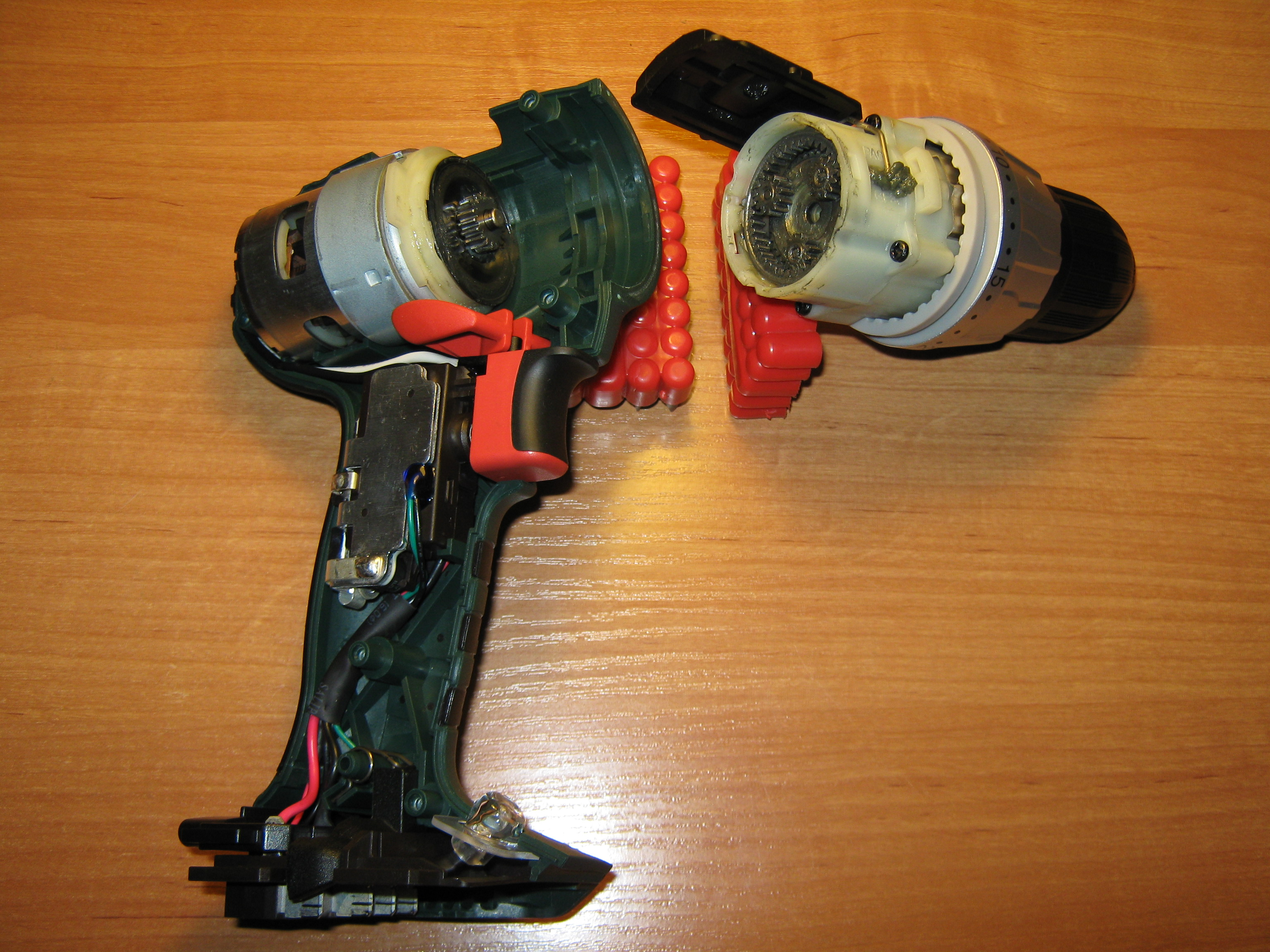 Cordless drill Metabo BS 14,4 Li.